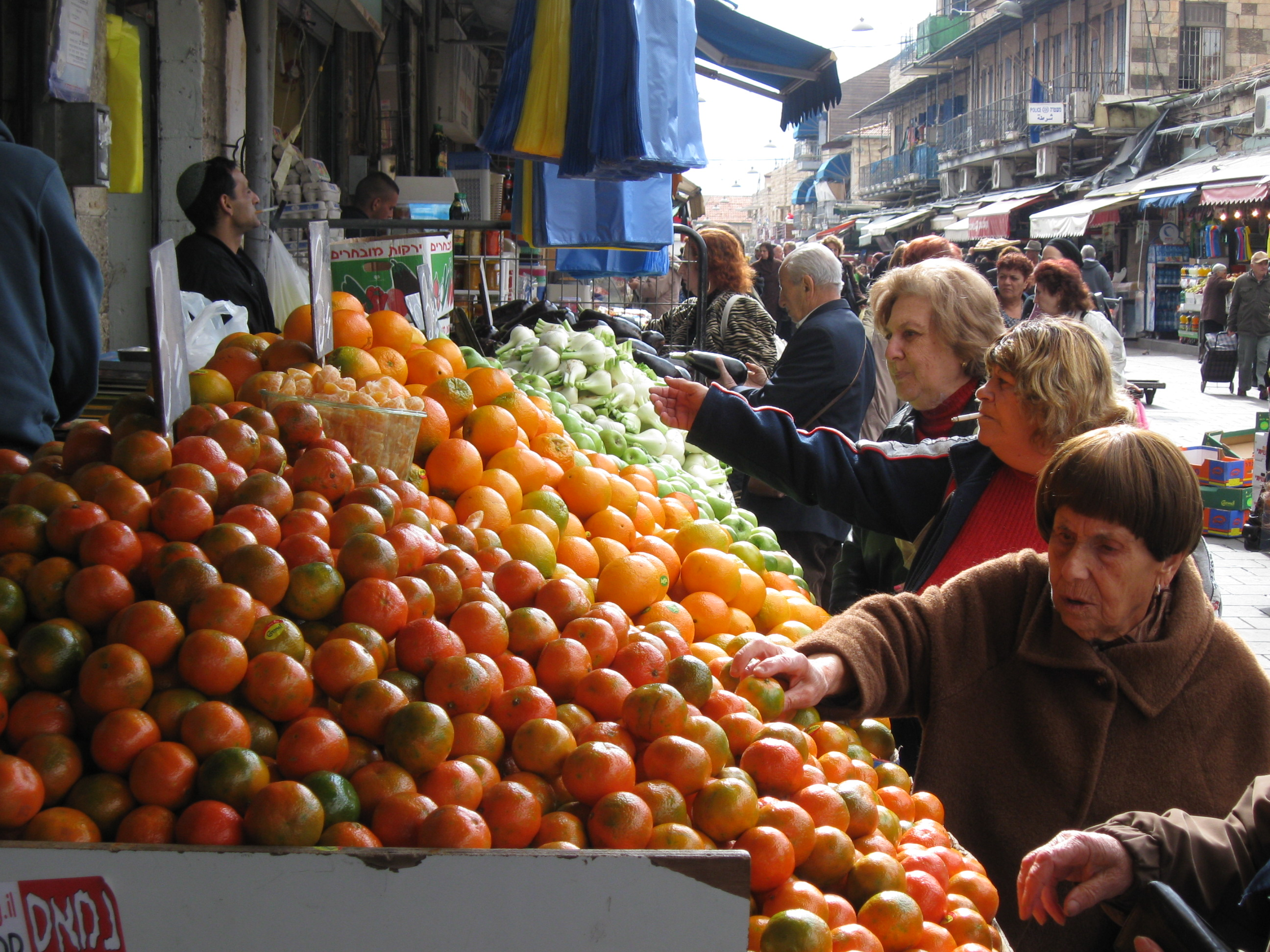 Shoppers at one of the open-air fruit stalls of the Mahane Yehuda Market, Jerusalem, Israel